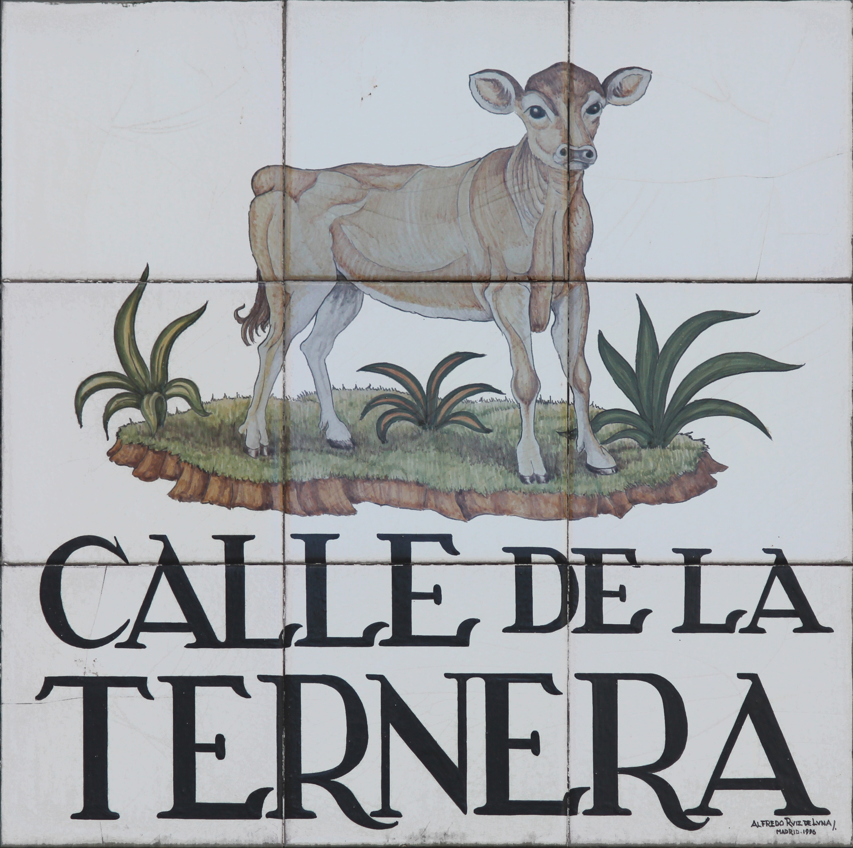 Sign of Calle de la Ternera (street) in Madrid (Spain).